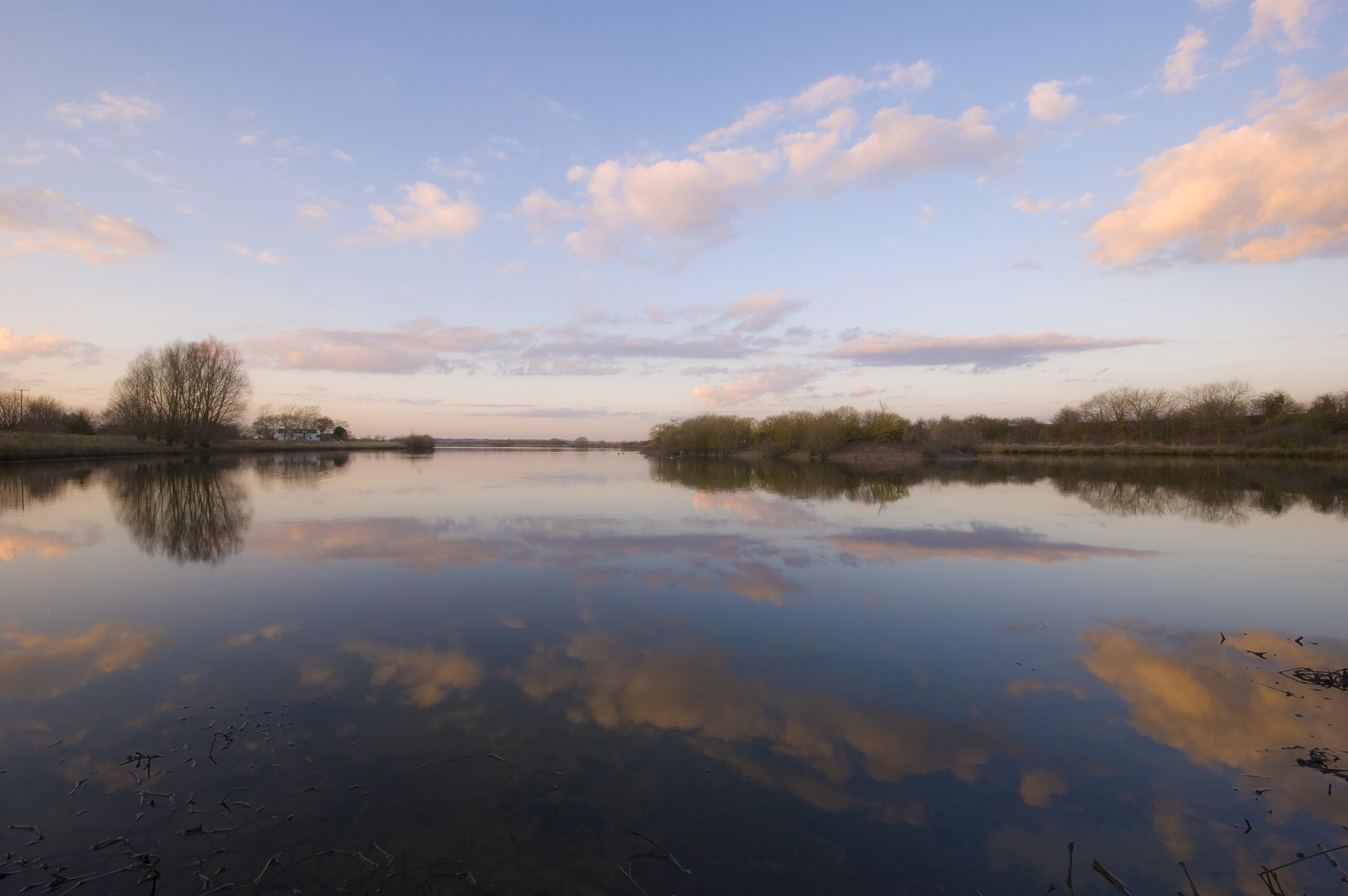 Croxall Lakes at Sunset from the south